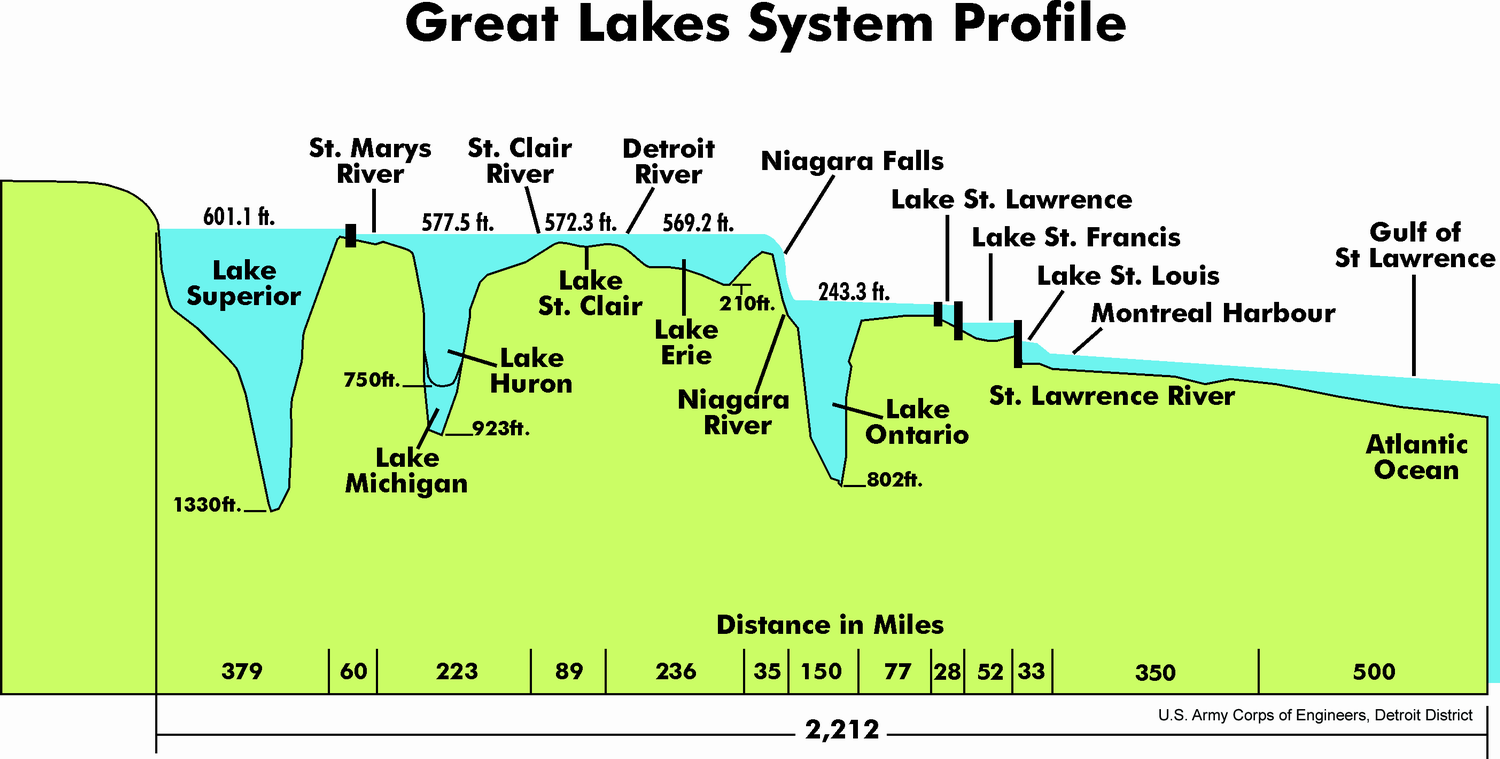 The figure shows typical water surface elevations and comparative lake depths of the Great Lakes.